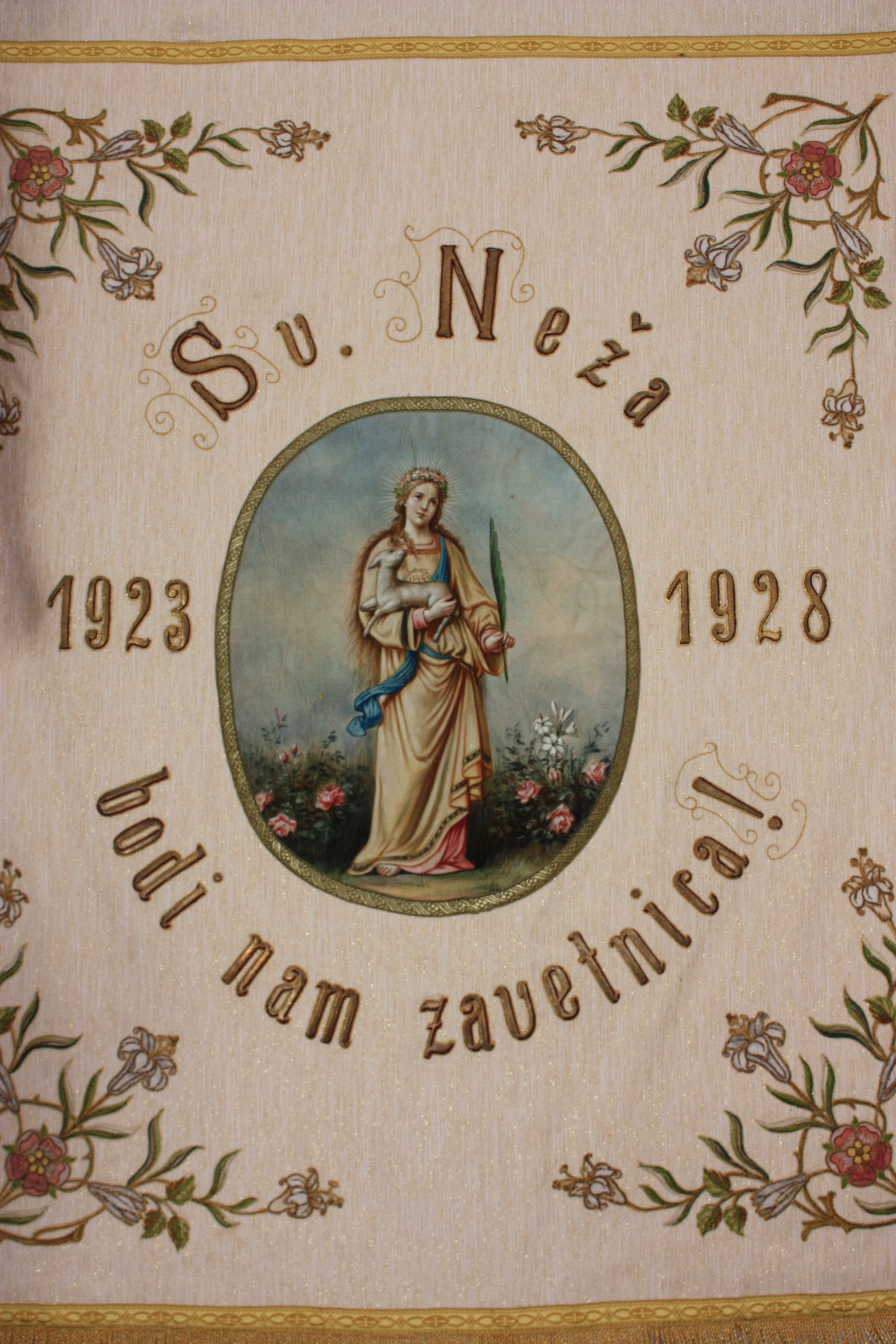 Abbey-church - flag Locality: Eberndorf Community:Eberndorf